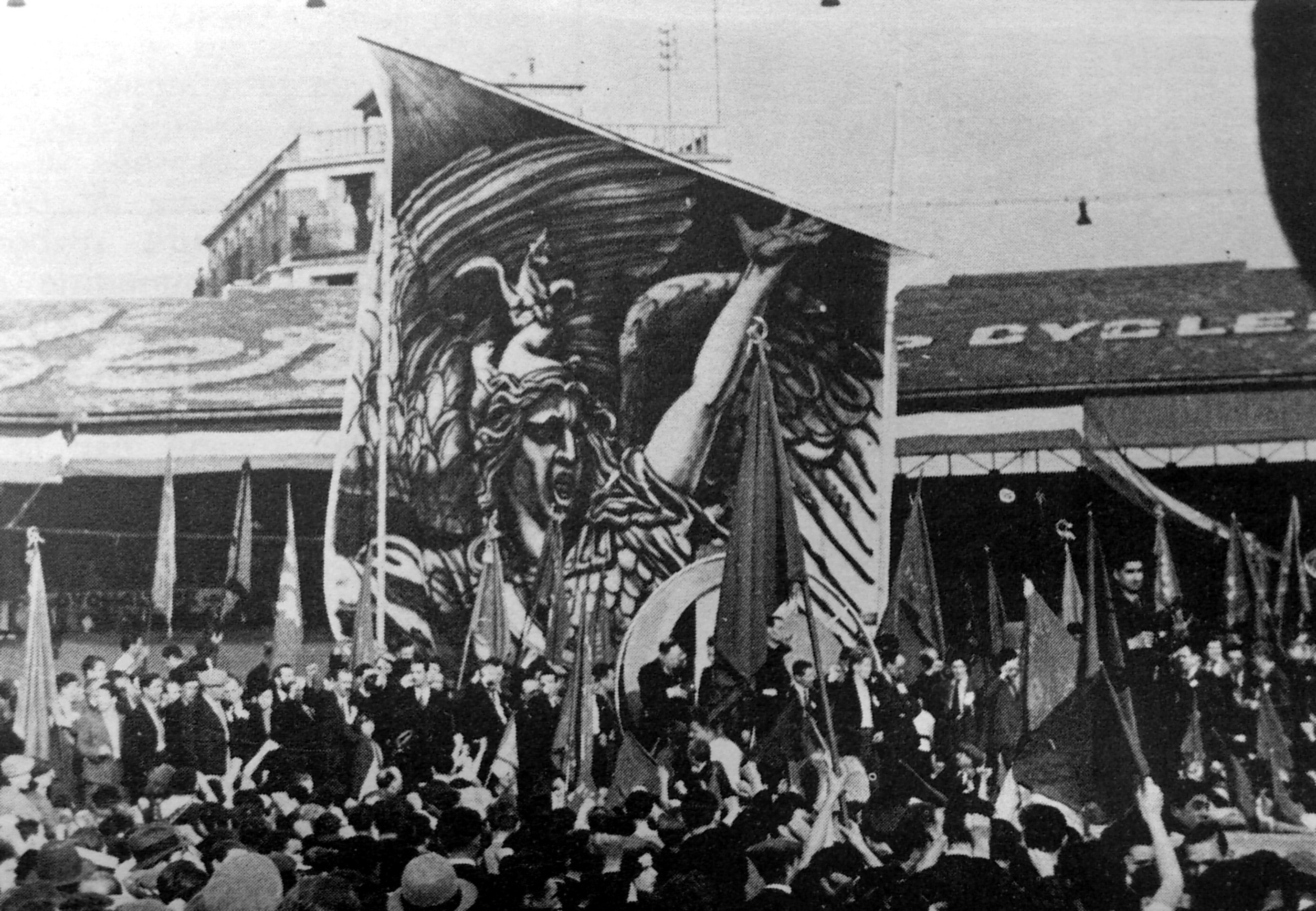 "Marseillaise" déployée au stade Buffalo, Montrouge, lors de la création du Front populaire, 1935